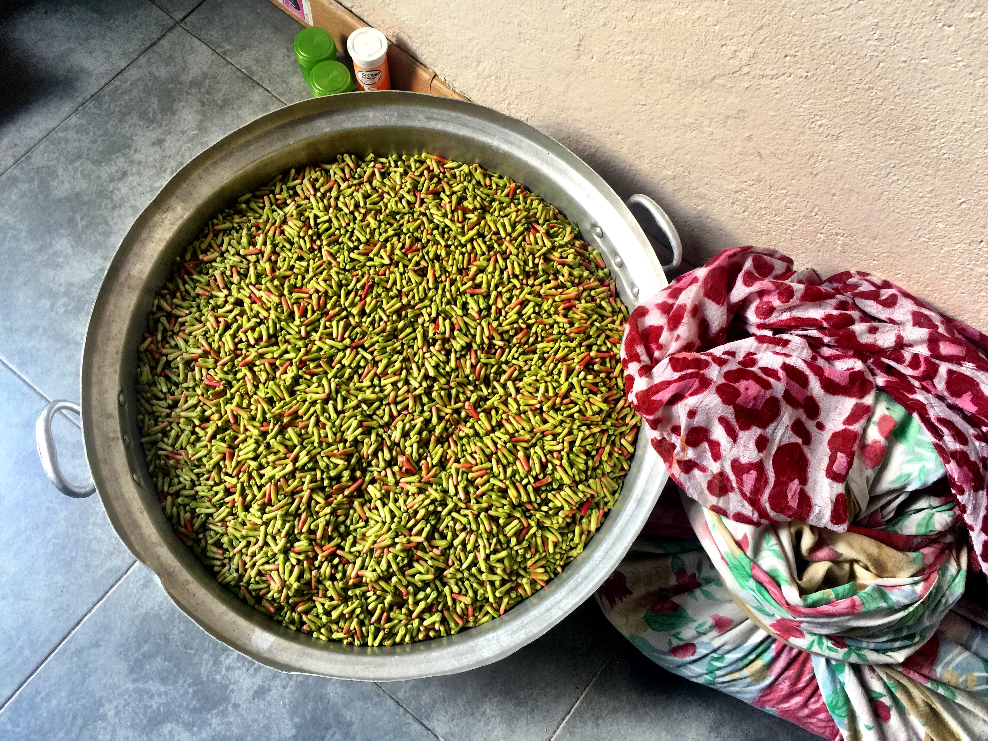 This is an image of "African people at work" from Comoros